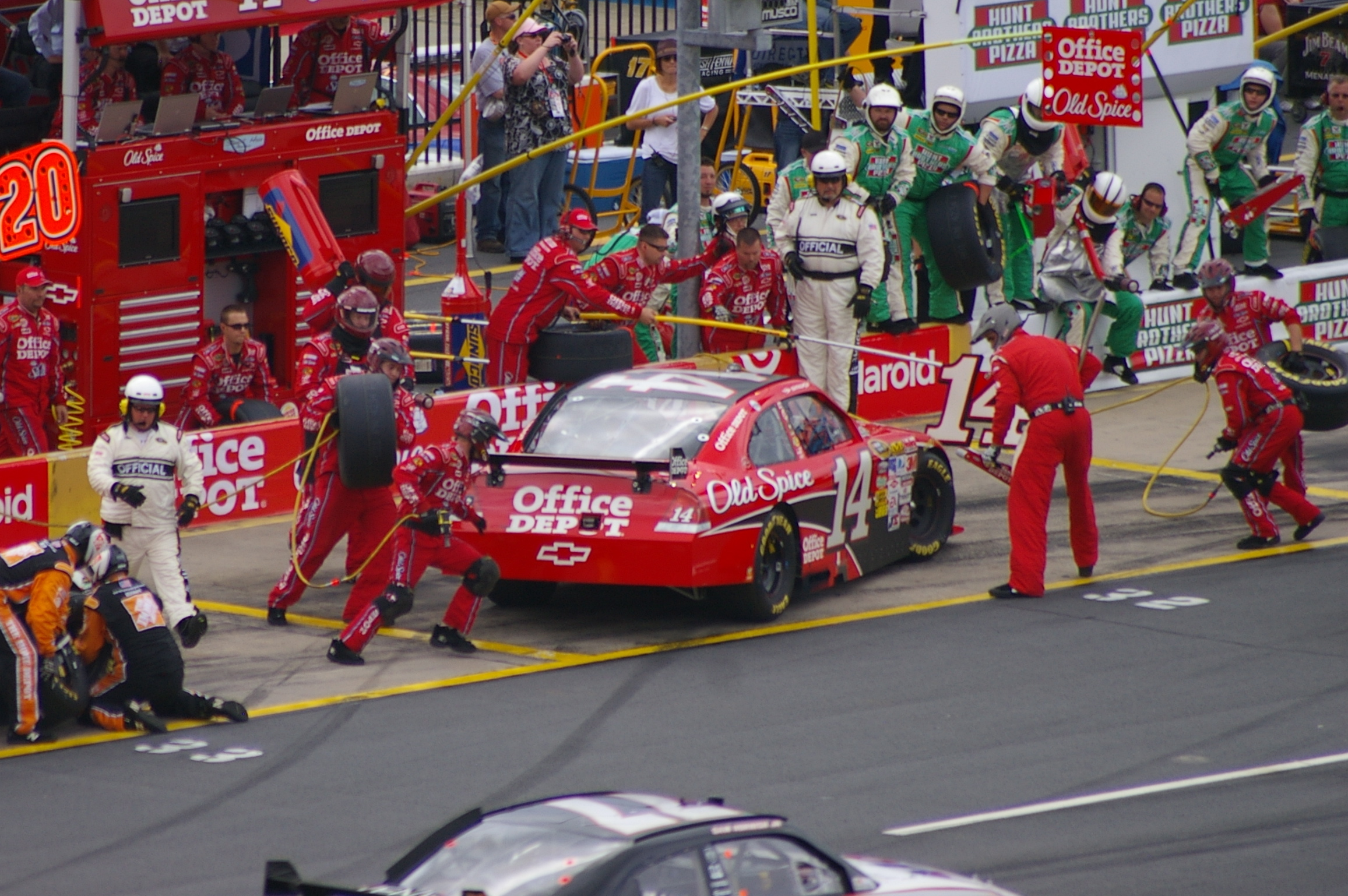 Tony Stewart pits his #14 Impala during the 2009 Coca-Cola 600 at Lowe's Motor Speedway